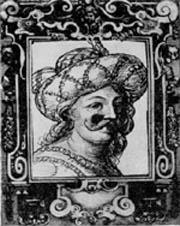 Alexander III, King of Imereti